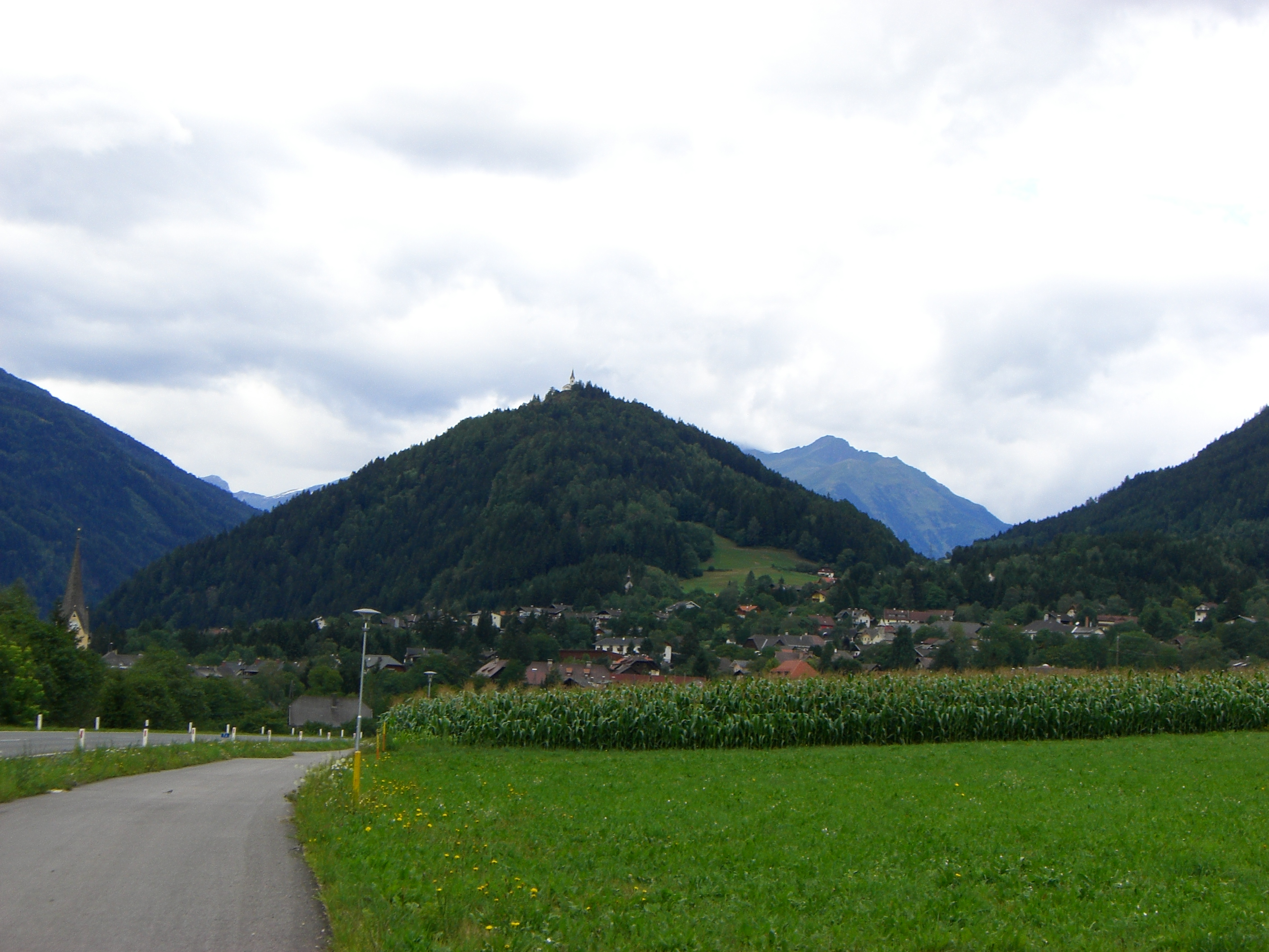 Danielsberg with Kolbnitz in Carinthia / Austrian / European Union.